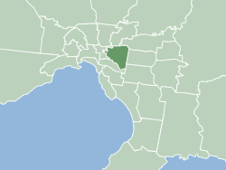 Map of Melbourne's Local Government Areas, highlighting City of Boroondara